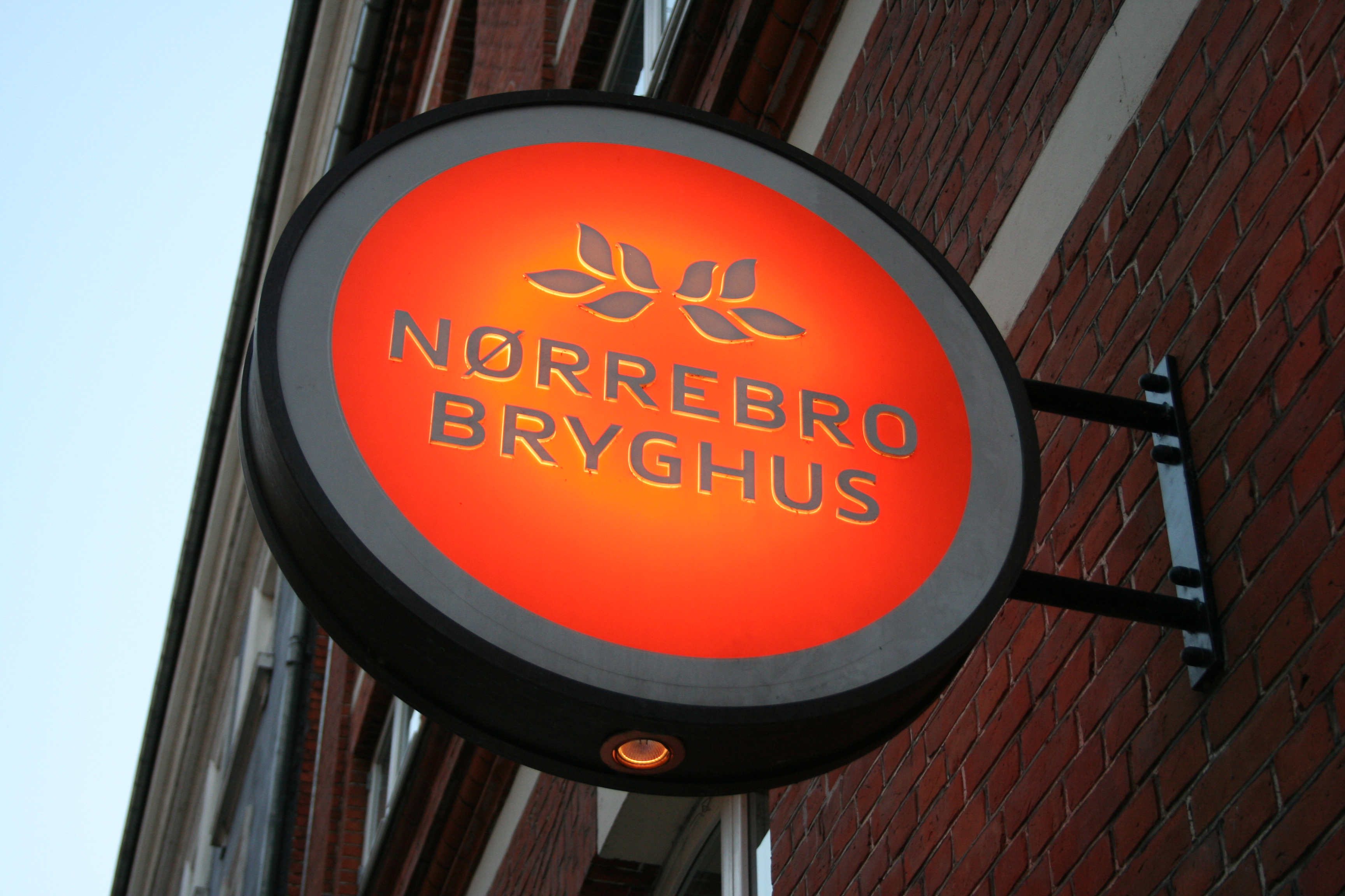 Sign from Nørrebro Bryghus, a brewery and restaurant/cafe in Nørrebro, Copenhagen, Denmark